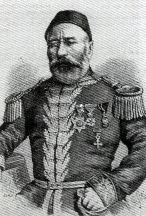 Vardan Pasha